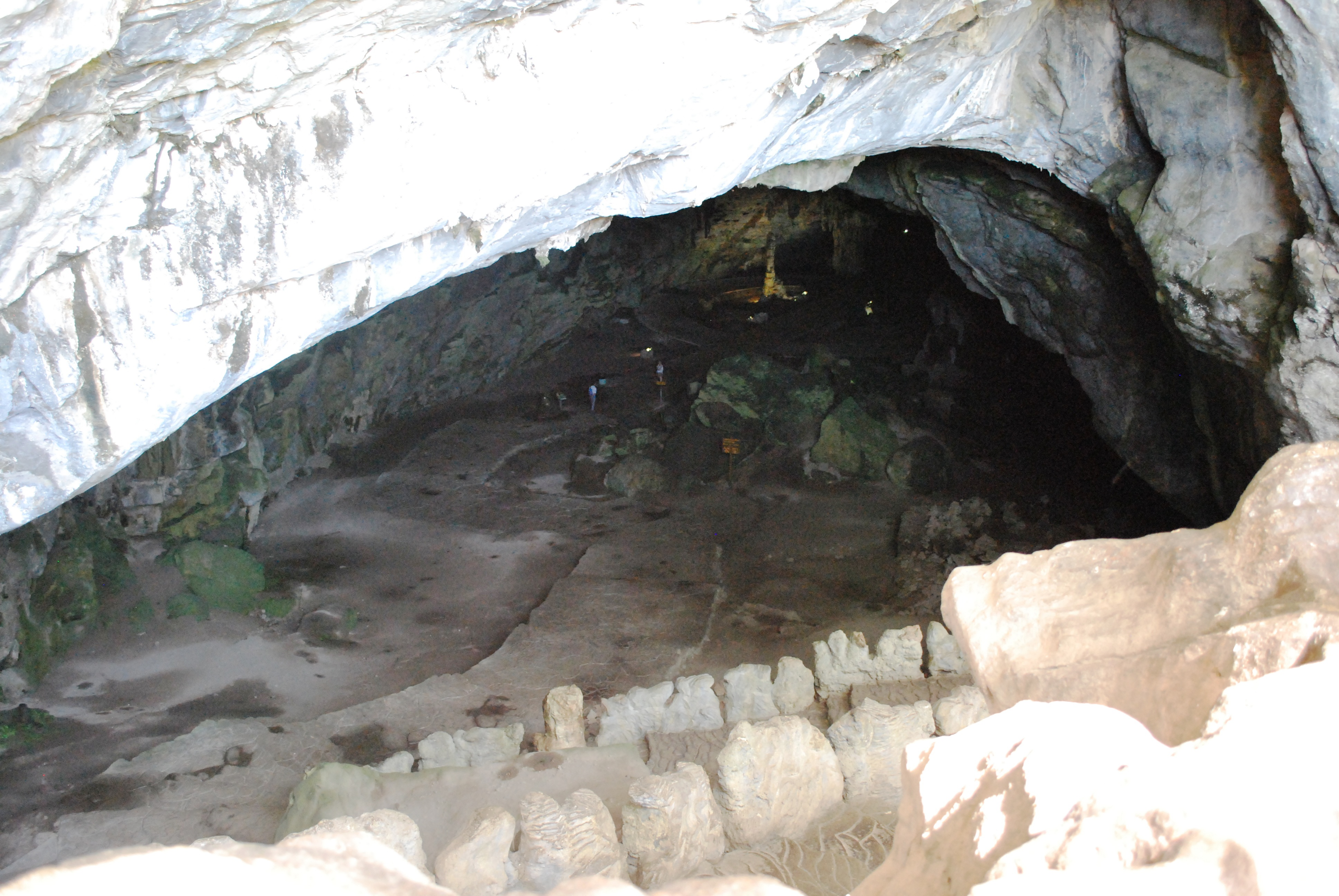 Looking down the main entrance to the Cacahuamilpa Caverns in Guerrero State Mexico